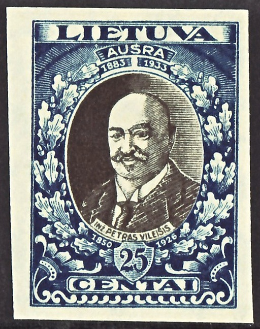 Stamp of Lithuania; 1933; 25 Centai; imperforate; Michel No. 0359B; Special issue to the 50th anniversary of the foundation of the first newspaper in Lithuanian language: "Aušra" (= Aurora) and also special issue in favour of the society "Lietuvos vaikas" (= The Lithuanian Child) - portraits of important employees and editors of "Aušra" Watermark: 8 (lenses) Color: dark blue / brown-black Nominal value: 25 Centai